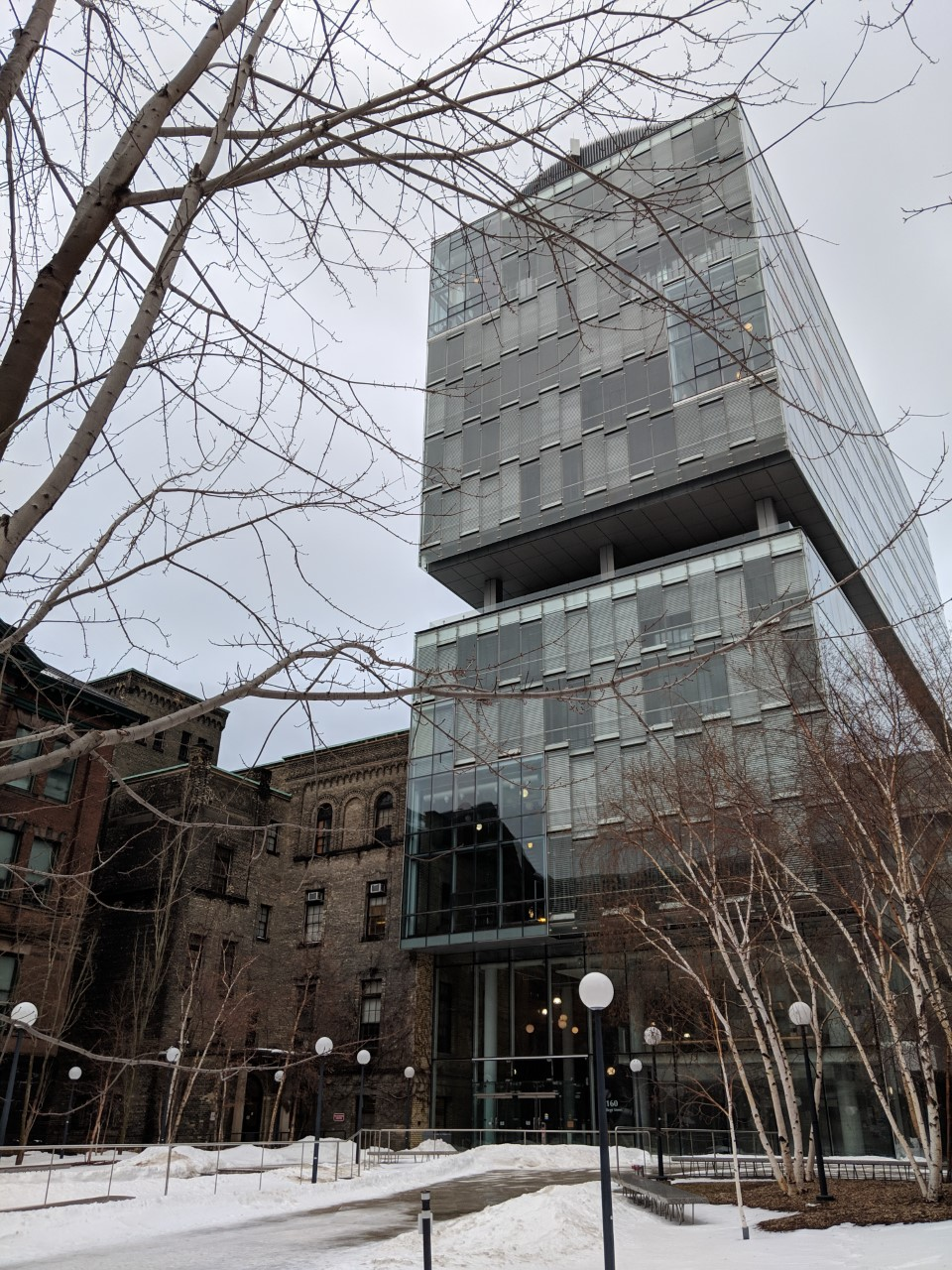 The Institute of Biomedical Engineering primary location is in the Mining Building (left) at the University of Toronto.